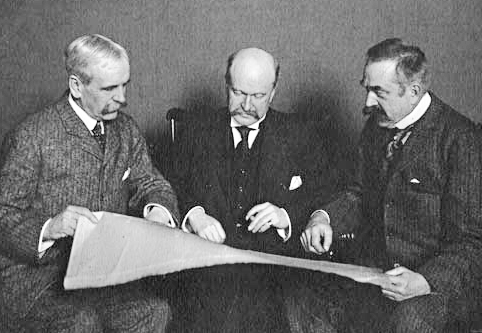 group photo of architectural firm McKim, Mead and White: Charles Follen McKim, William Rutherford Mead and Stanford White